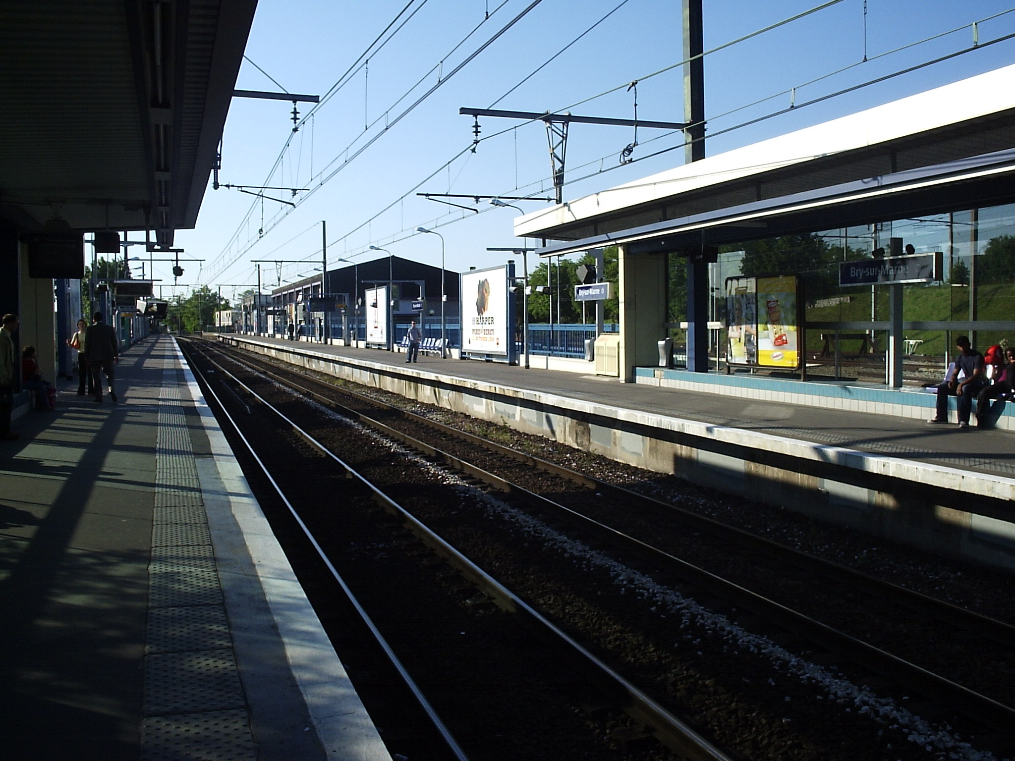 RER A station in Bry-sur-Marne, France.